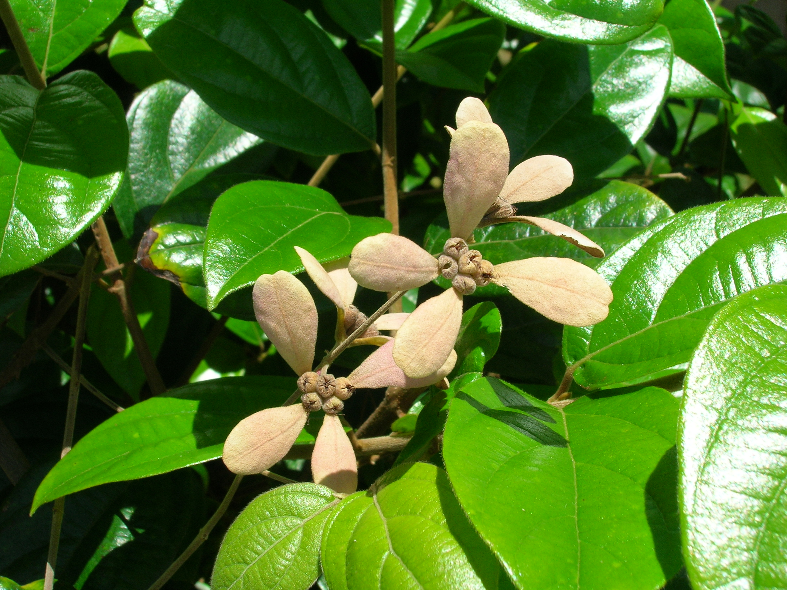 Congea griffithiana (fruit). Location: Oahu, Keolu